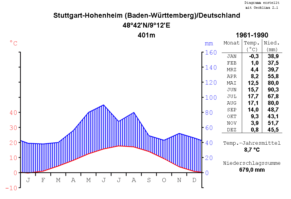 climate chart of Stuttgart-Hohenheim, Baden-Württemberg, Germany, for the period of time from 1961 to 1990, in the format by Walter and Lieth, metric, °Celsius and millimeters, chart made with Geoklima 2.1, label in German